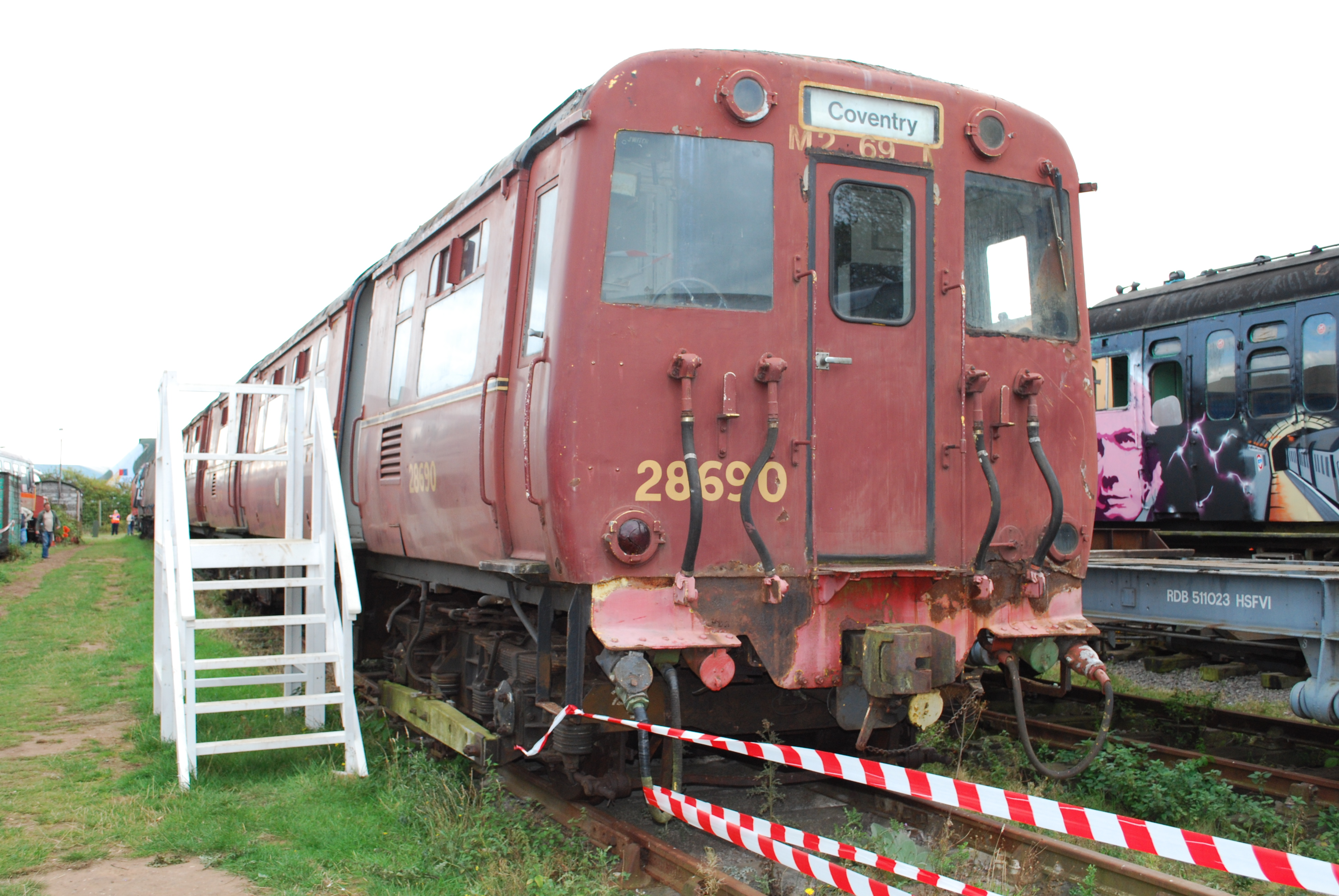 L.M.S. "Wirral & Mersey" (later Class 503) 650 v dc 3rd rail suburban 3-car e.m.u. No.28690 in B.R. (L.M.R.) maroon livery at the Electric Railway Museum, Coventry, 9/11.